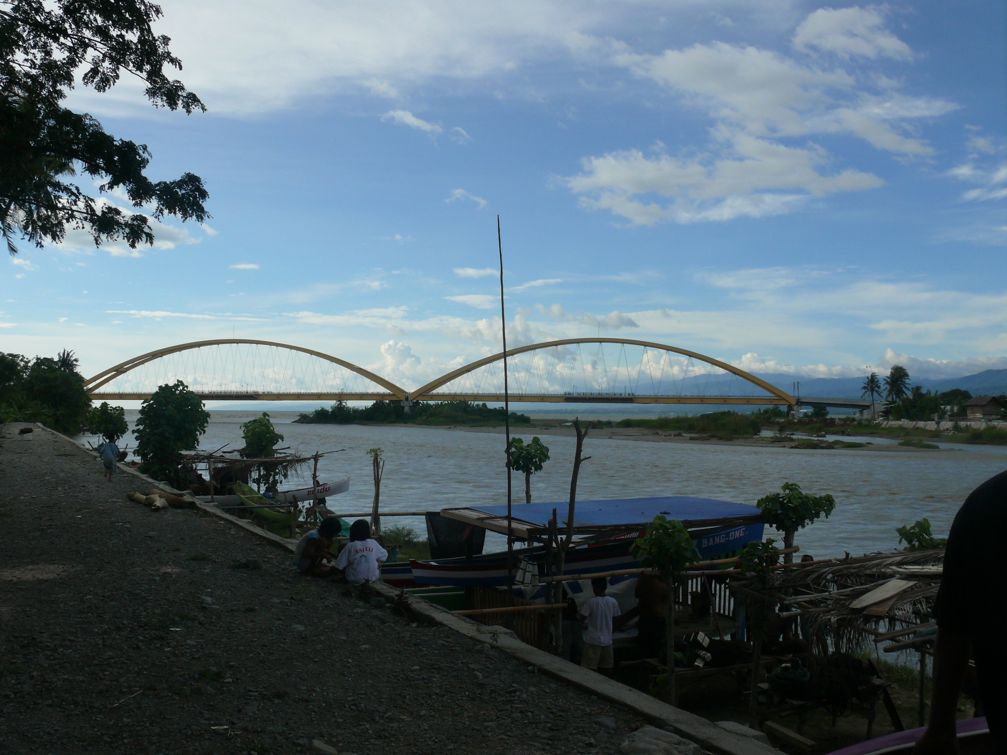 Fishermen and boat on the river Palu